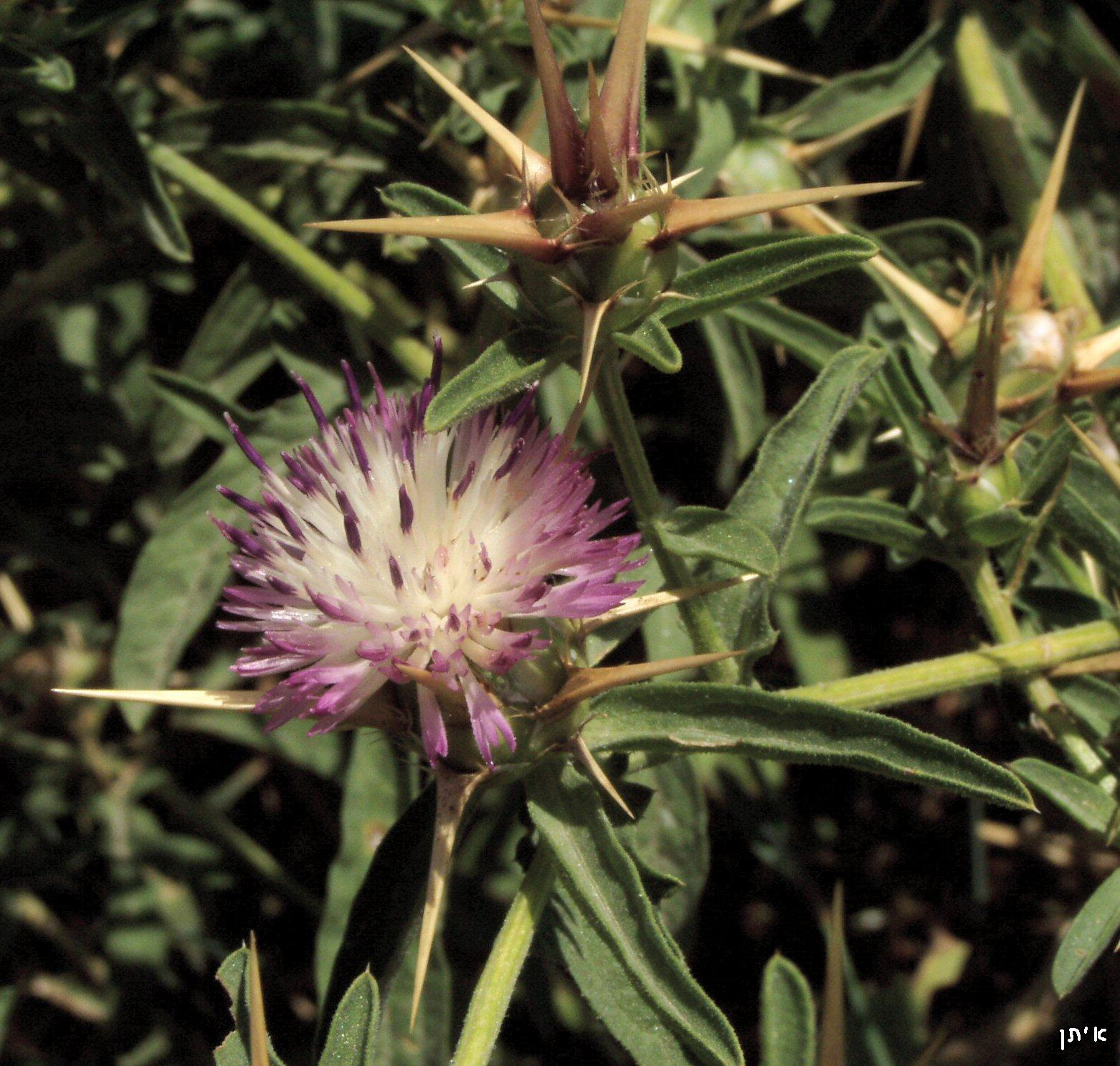 Centaurea iberica - Menashe hills דרדר מצוי - יקנעם